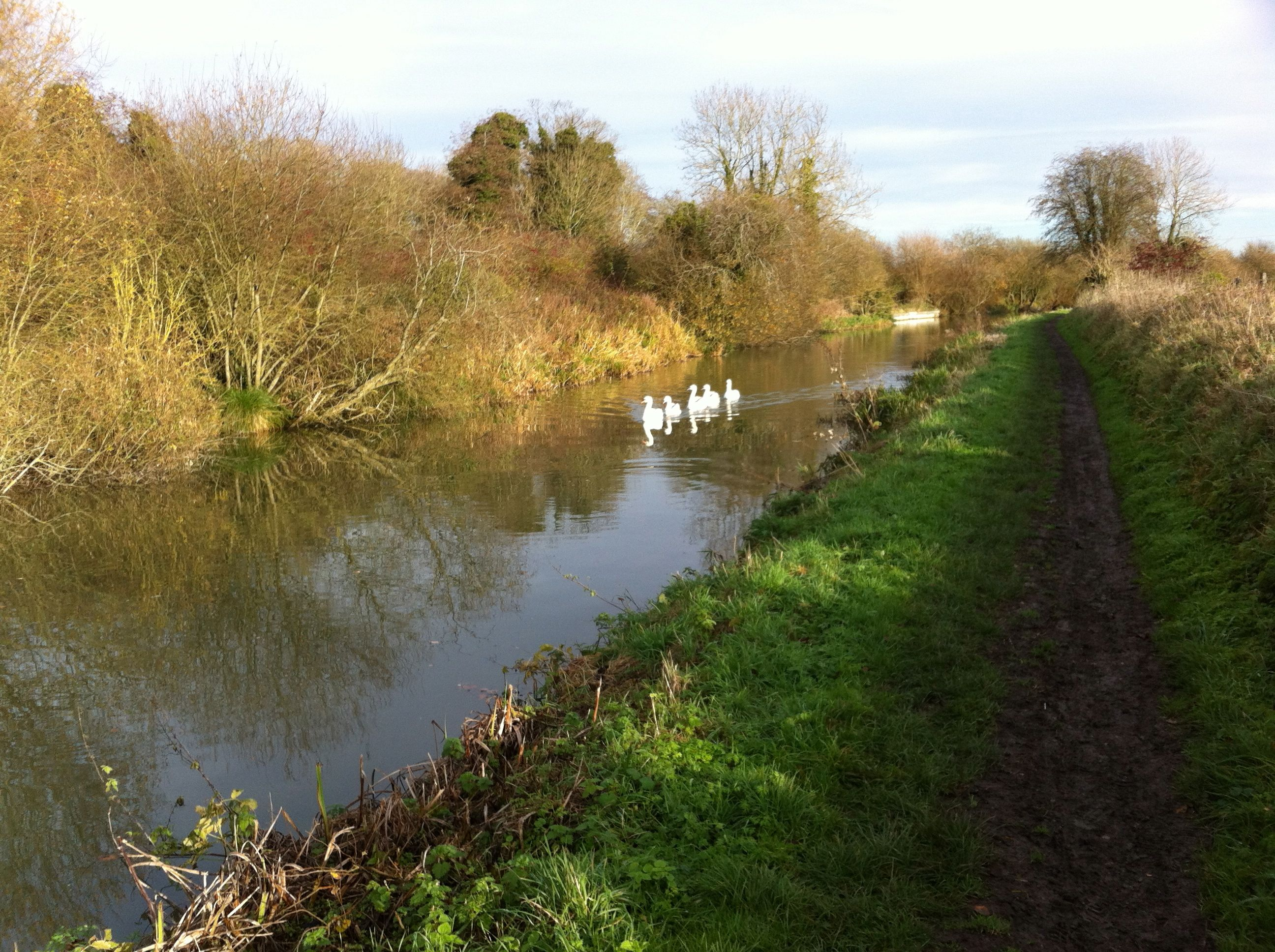 A picture of 5 swans coming up the Kennet And Avon Canal into Devizes